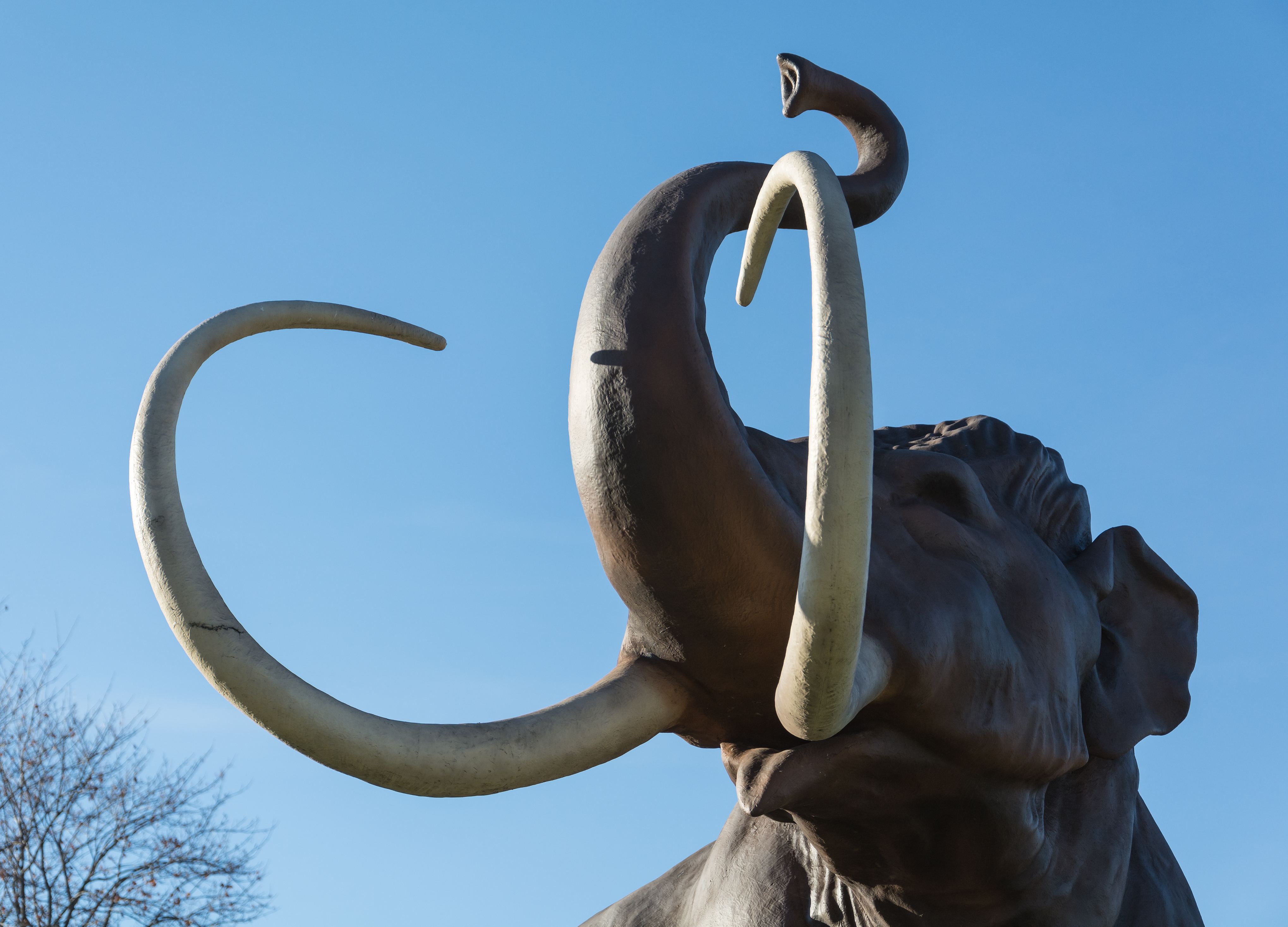 Mammoth model in Szczytna